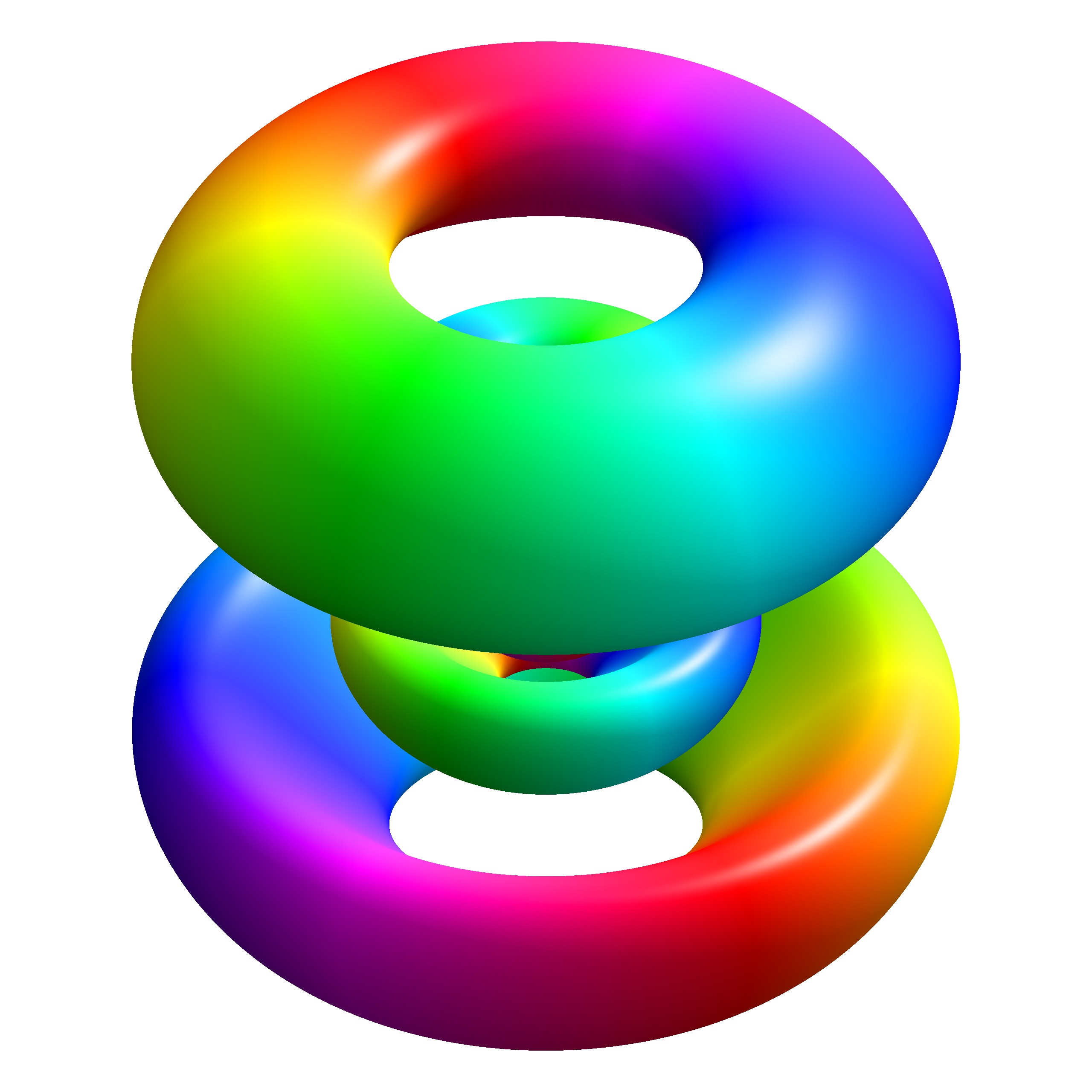 Calculated 5d1 orbital of an electron's eigenstate in the Coulomb-field of a hydrogen nucleus. An eigenstate is a state which keeps it's shape except for a complex phase when the Hamilton operator is applied, thus being invariant in time while obeying the Schrödinger equation. The wavefunction is: ψ 5 , 2 , 1 ( r , ϑ , φ ) = ( 2 5 a 0 ) 3 5 5 ⋅ 7 ! ⋅ e − r / ( 5 a 0 ) ⋅ ( 2 r 5 a 0 ) 2 ⋅ L 2 5 ( 2 r / ( 5 a 0 ) ) ⋅ Y 2 1 ( ϑ , φ ) {\displaystyle \psi _{5,2,1}(r,\vartheta ,\varphi )={\sqrt \left({\frac {2}{5\,a_{0 }\right)}^{3}{\frac {5}{5\cdot 7! \cdot e^{\textstyle -r/(5\,a_{0})}\cdot \left({\frac {2\,r}{5\,a_{0 }\right)^{2}\cdot L_{2}^{5}(2\,r/(5\,a_{0}))\cdot Y_{2}^{1}(\vartheta ,\varphi )} The state is an eigenstate of H, L² and Lz, which constitute a complete set of commuting observables. The quantum numbers mean that the following quantities have a sharp certain value: n = 5: Energy: E = − 1 R y / n 2 = − 13.6 e V / 25 {\displaystyle E=-1\,\mathrm {Ry} /n^{2}=-13.6\,\mathrm {eV} /25} l = 2: Angular momentum: | L | = l ( l + 1 ) ℏ = 6 ℏ {\displaystyle |L|={\sqrt {l\,(l+1) \,\hbar ={\sqrt {6 \,\hbar } m = 1: Angular momentum in z-direction: L z = m ℏ = ℏ {\displaystyle L_{z}=m\,\hbar =\hbar } Since l=2, this is called a d-orbital. The orbital is aligned around the z-axis, but remains an eigenfunction of H and L² if rotated to any direction. The depicted rigid body is where the probability density exceeds a certain value. The color shows the complex phase of the wavefunction, where blue means real positive, red means imaginary positive, yellow means real negative and green means imaginary negative. The image is raytraced using modified Phong lighting. The fine structure is neglected.